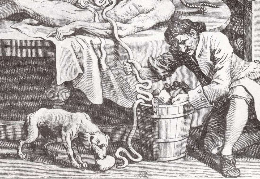 Four stages of cruelty - The reward of cruelty, fourth and last of series of engravings. detail